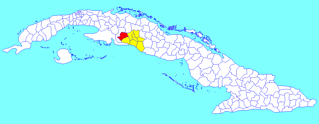 A map of the municipality of Aguada de Pasajeros (shown in red) within the Province of Cienfuegos (yellow) and Cuba.